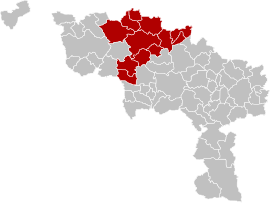 Map of Ath District in province of Hainaut, Belgium.